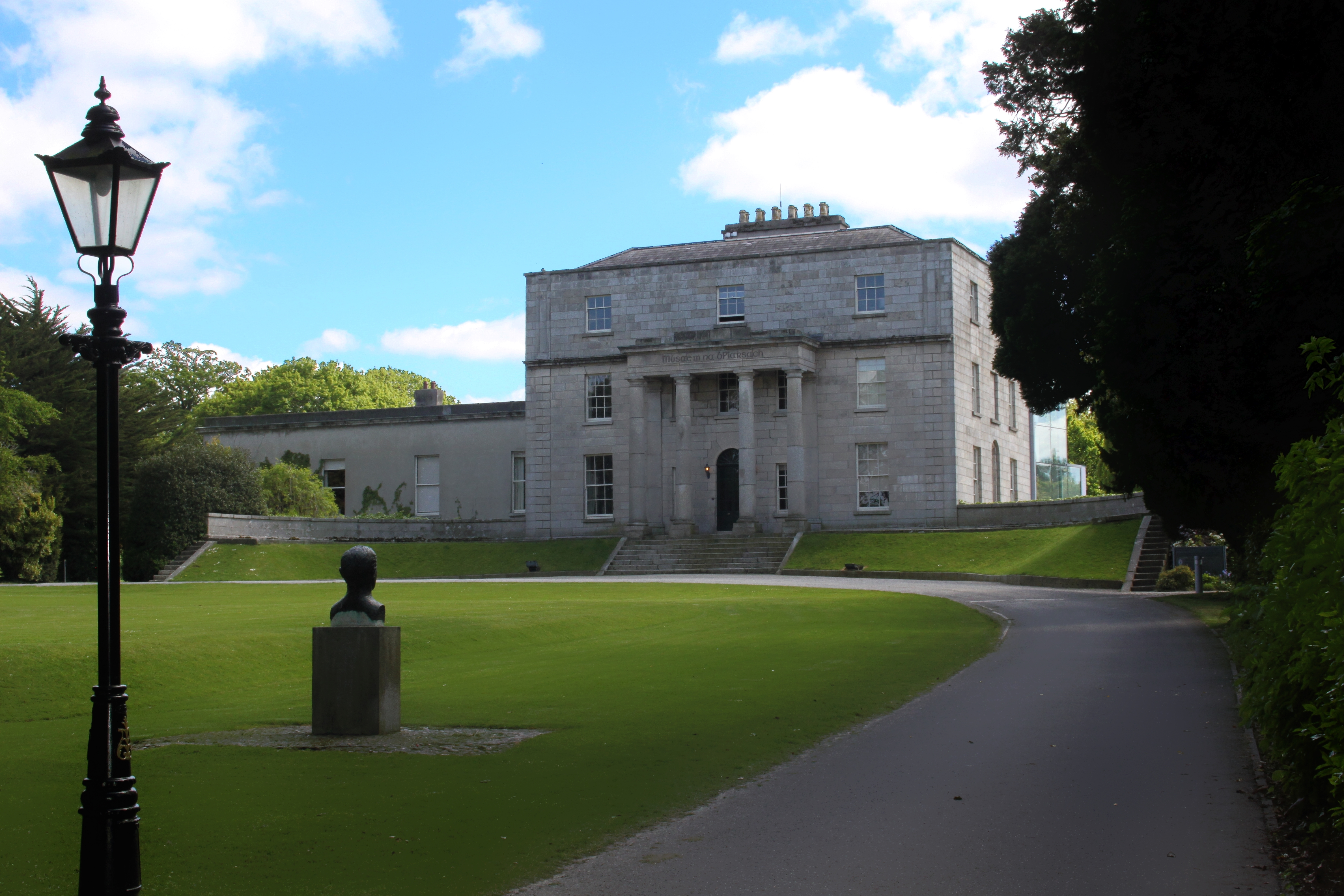 Pearse Museum-St Endas